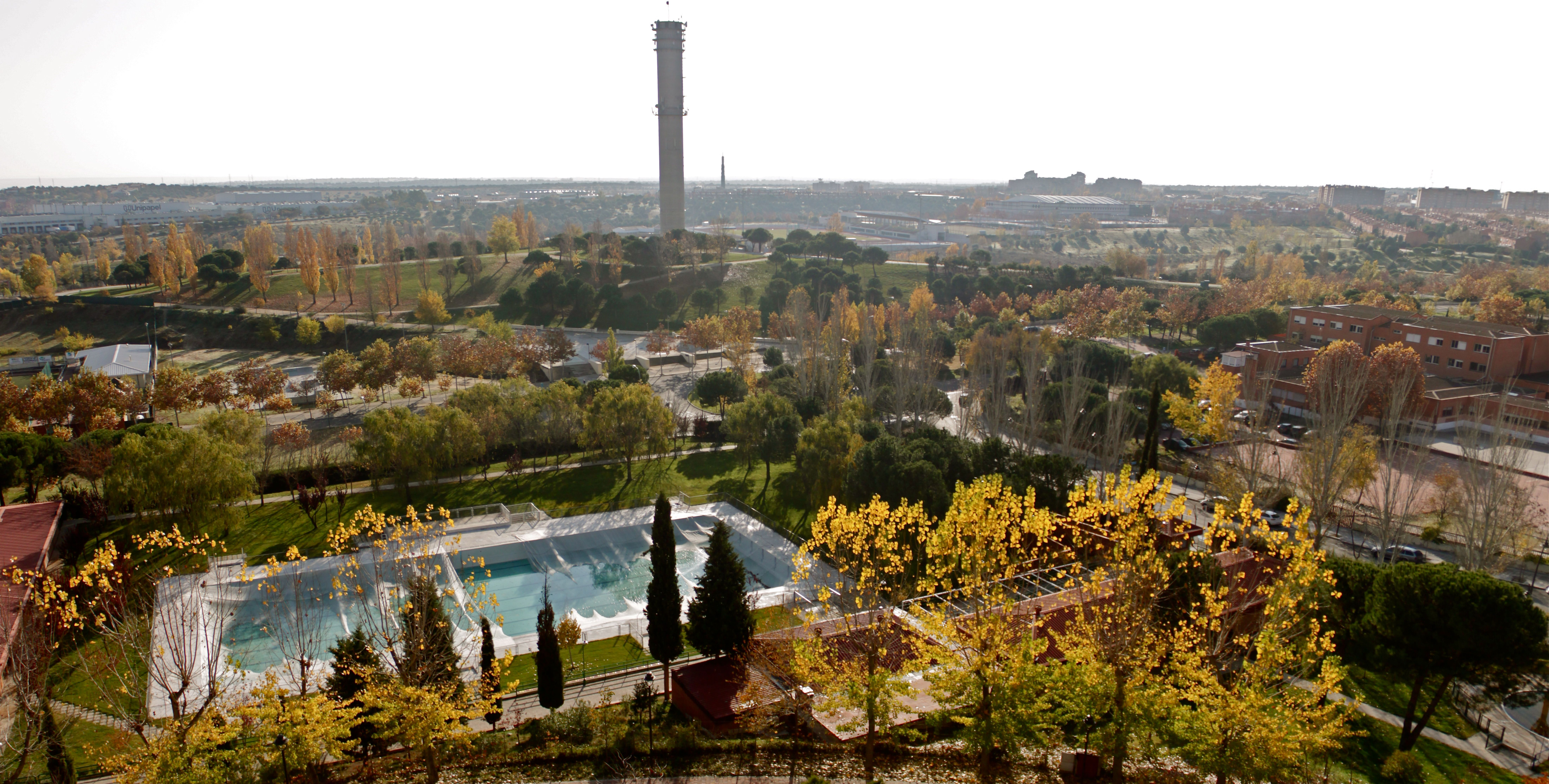 View of the township of Tres Cantos